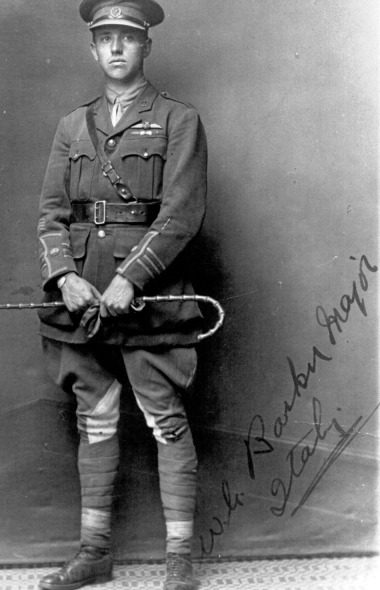 An autographed portrait of air ace William George Barker in July, 1918, when he was promoted to major and took command of 139 Squadron in Italy.